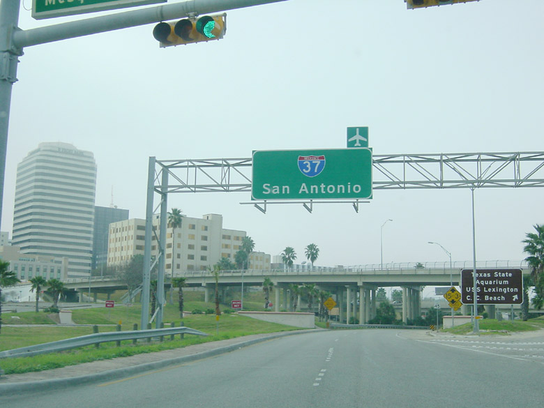 A picture of the southern terminus of Interstate 37 in Corpus Christi, Texas.